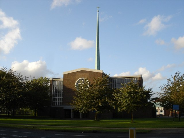 Our Lady of Fatima Catholic church built 1958-60 was closed for 4 years to reburbish the pre-stressed concrete structure. The architect was Gerald Goalen.